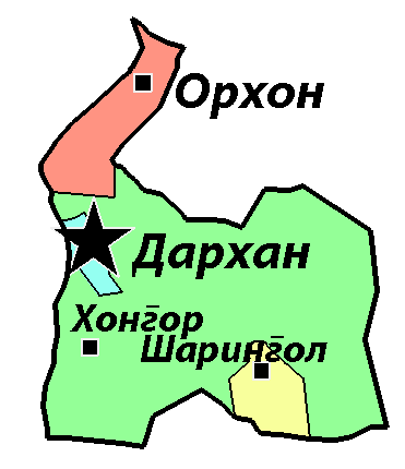 Translated map of Darkhan sum on Macedonian language